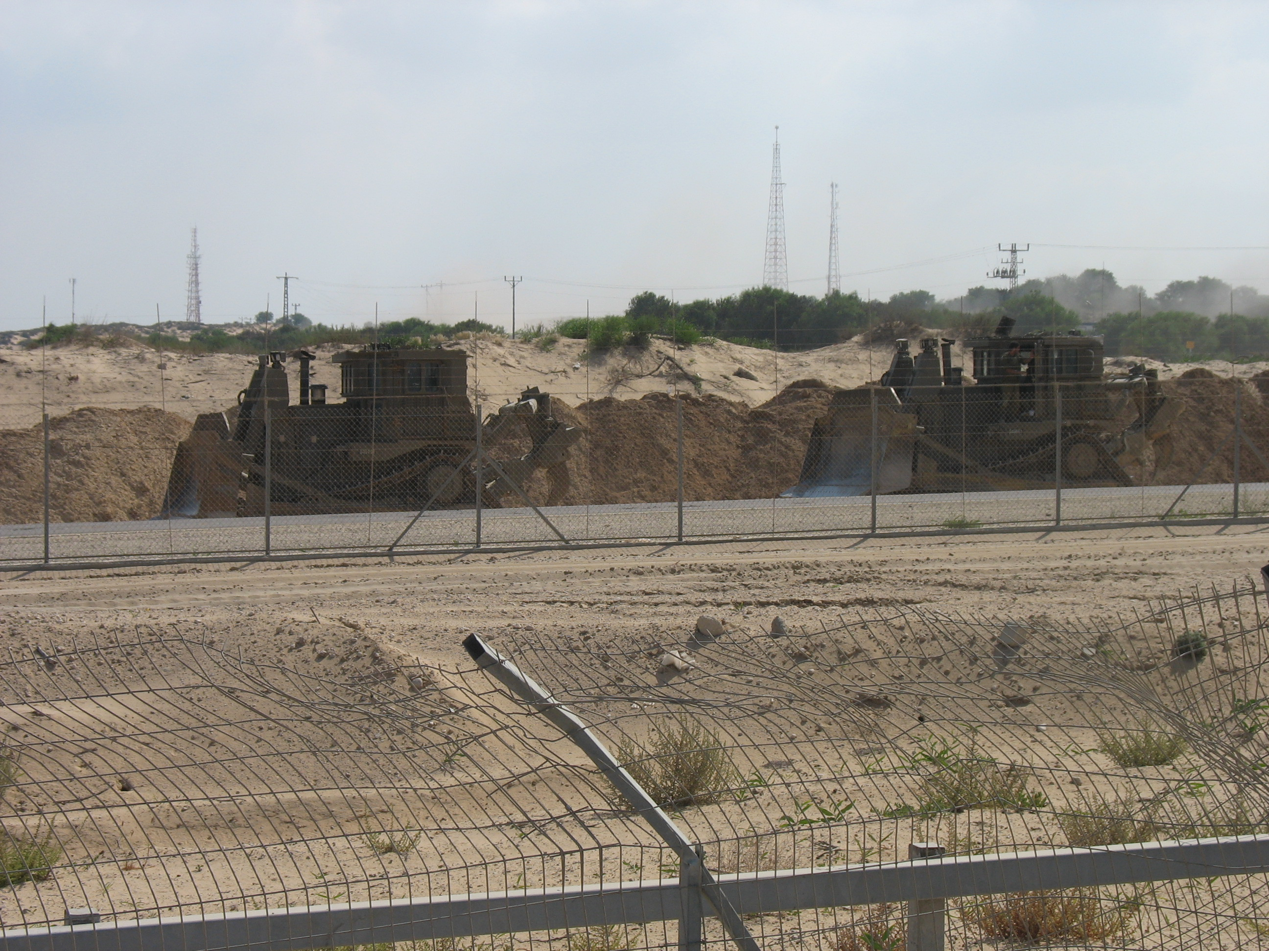 A pair of IDF Caterpillar D9 bulldozers during operation 'Summer Rains'.